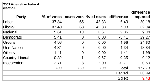 Gallagher Index, 2001 Australian Federal Election